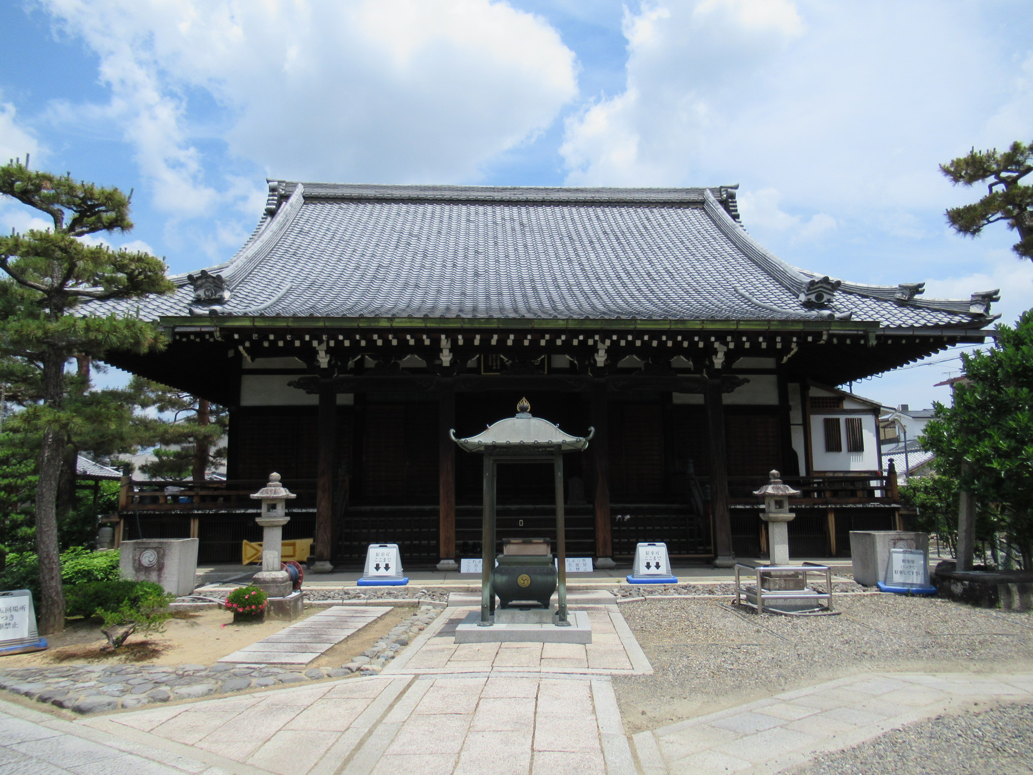 Saion-ji, Kamigyo-ku, Kyoto.